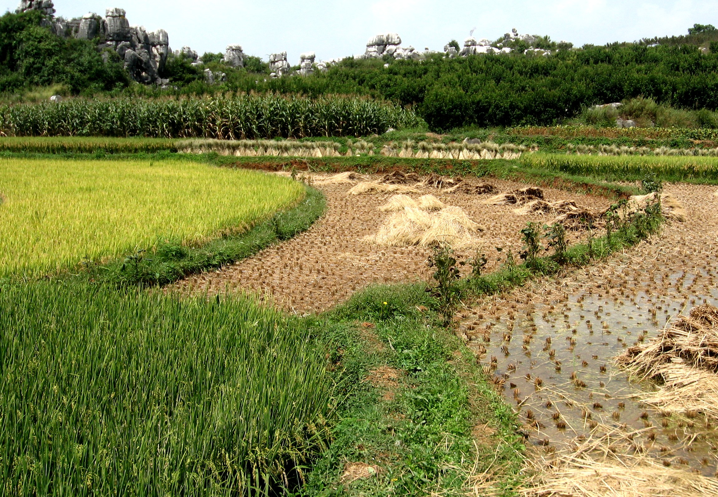 Rice at several stages of maturity. Irrigation allows multiple rice crops each year. Location: Shilin National Park, Yunnan Province, PRC.